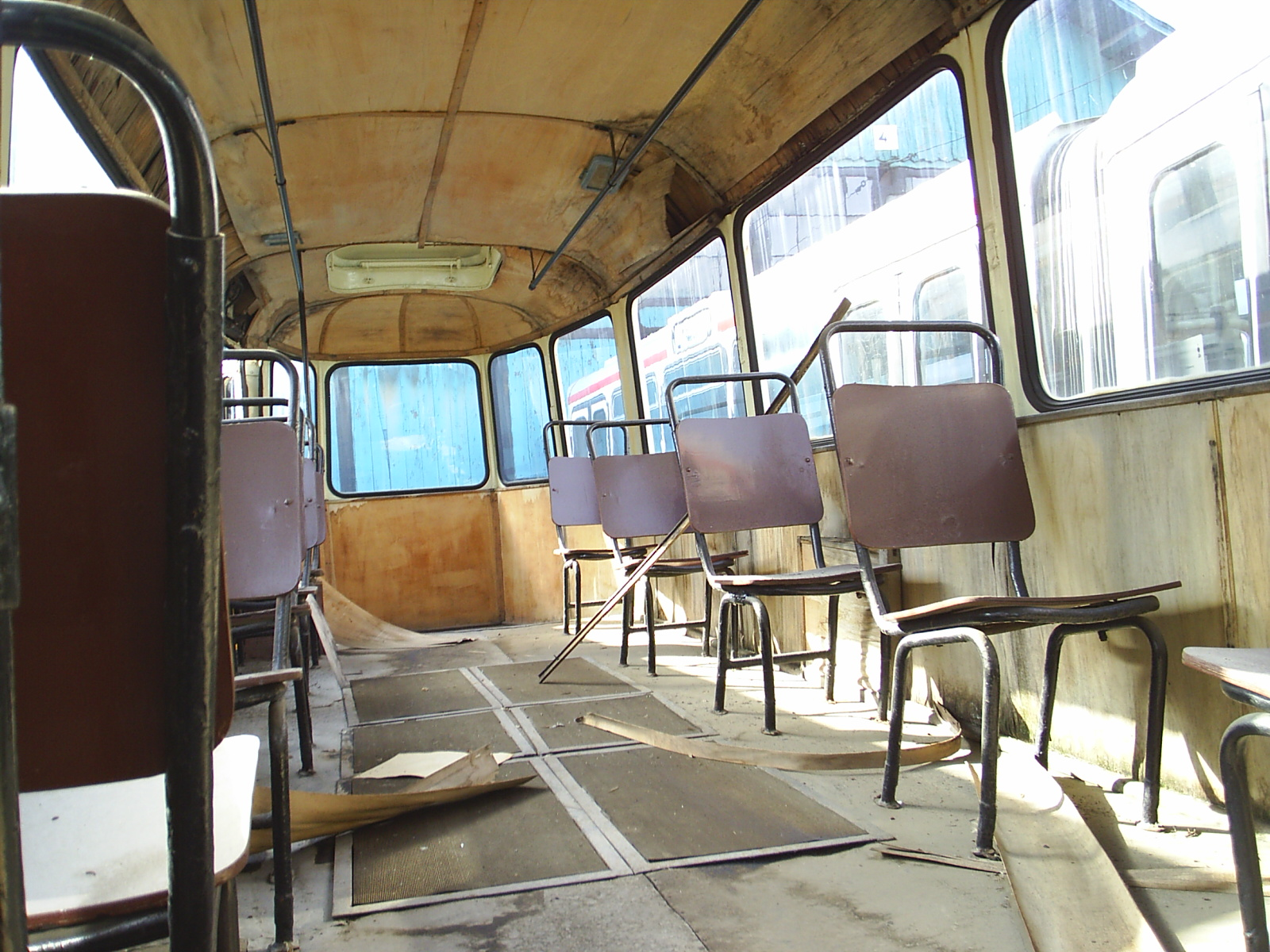 inside Vo58 tram